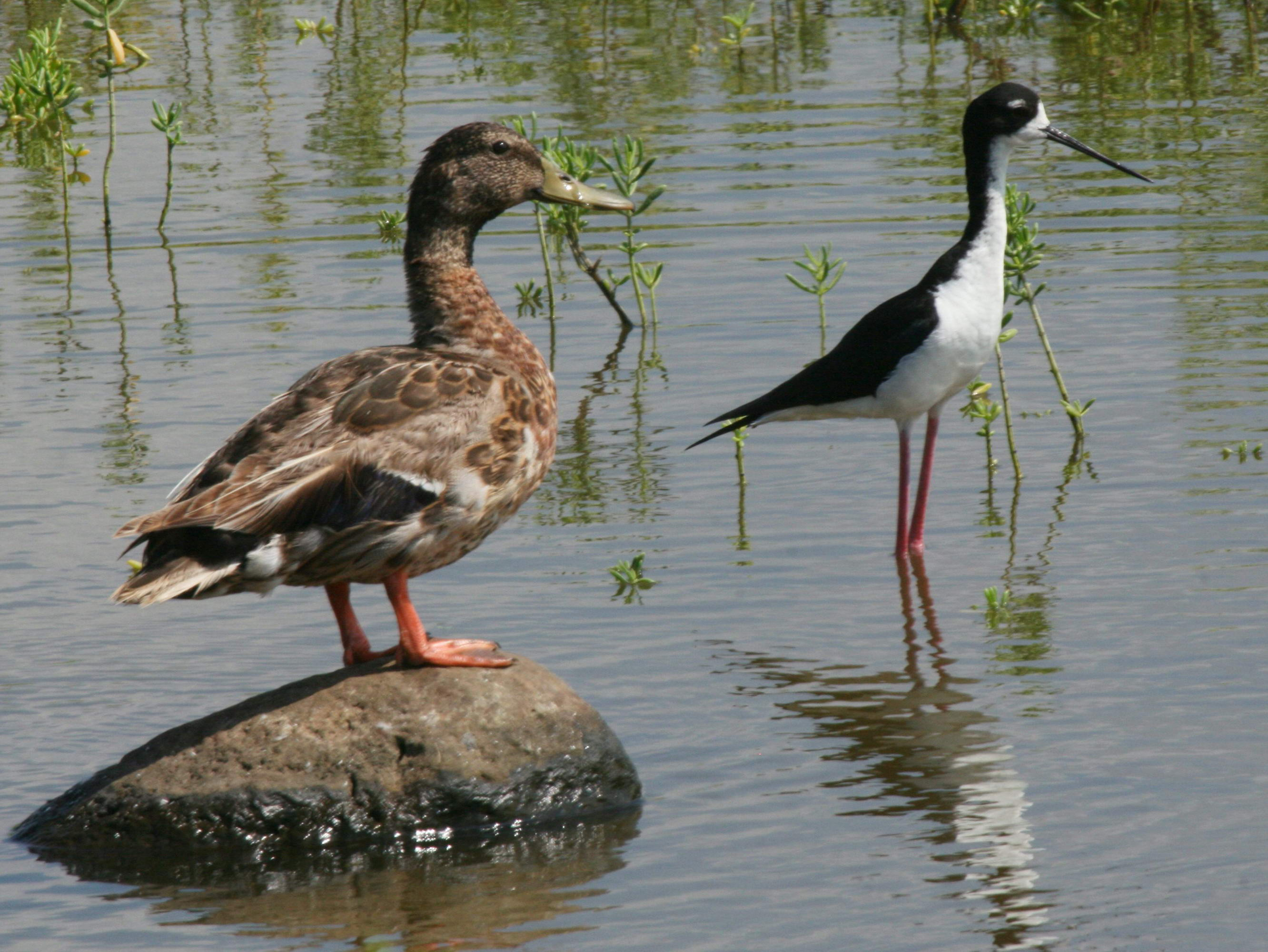 Hawaiian Duck, also known as Koloa maoli (Anas wyvilliana) and Hawaiian Stilt (Himantopus mexicanus knudseni). They were photographed on Maui, Hawaii. This is a good comparison of their sizes, remembering that half the stilt's legs are underwater!